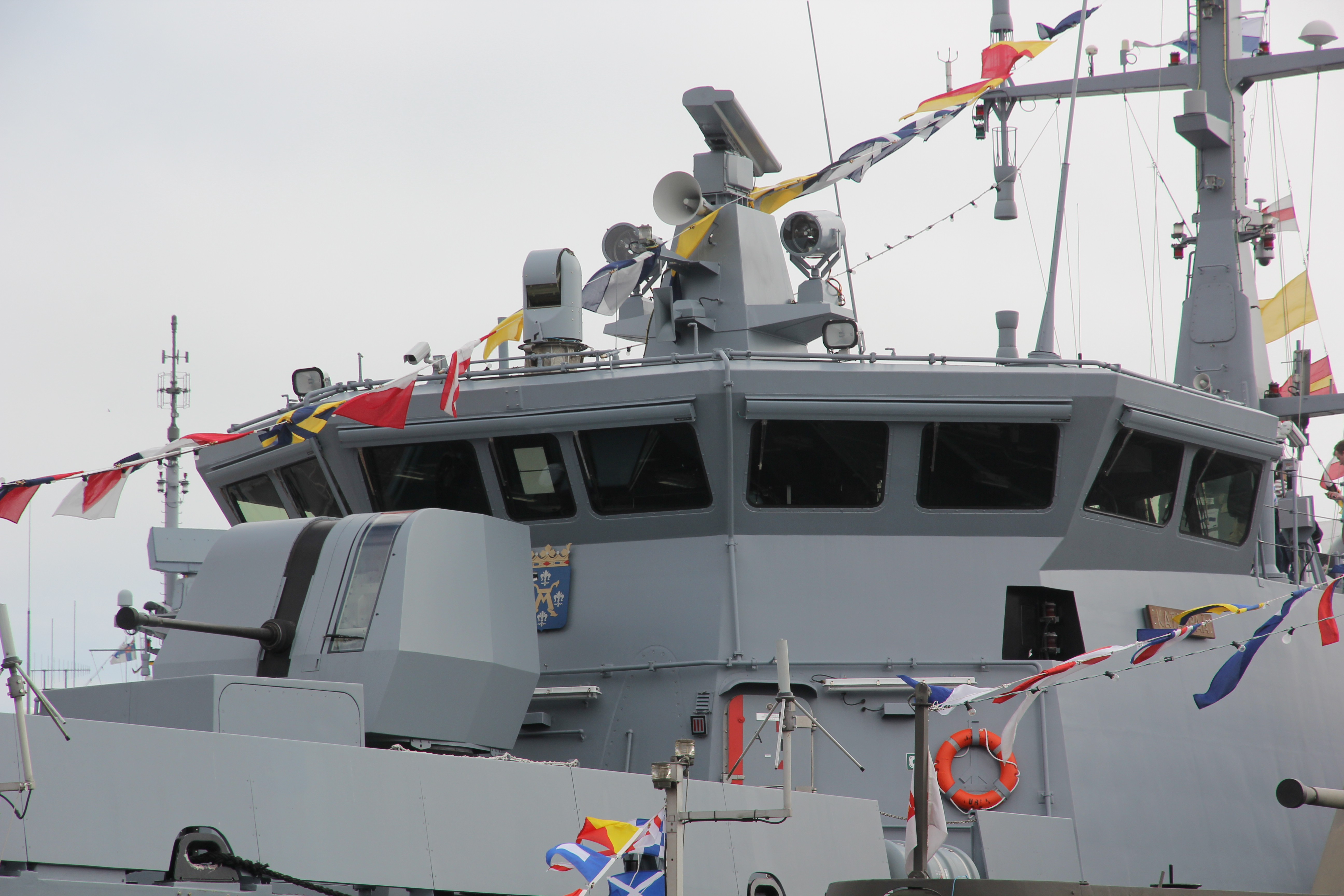 Coastal mine hunter Katanpää (40) in Helsinki South harbour on the Finnish navy 2012 anniversary.